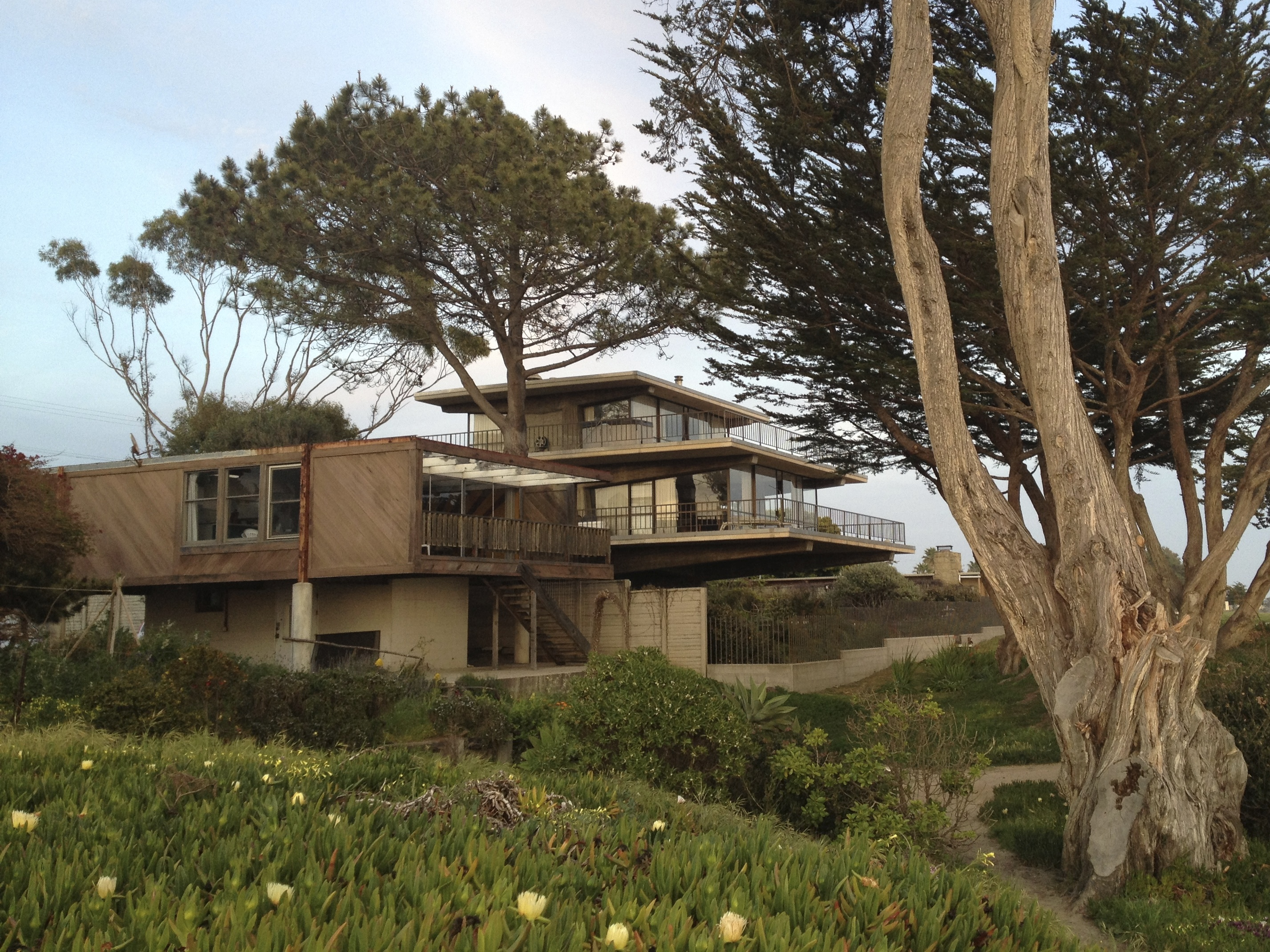 International style houses at 6881 Del Playa (built in 1957) and 6877 Del Playa (built in 1968), facing the ocean. Designed by Richard Taylor and built for UC Santa Barbara professors. The left brown house was torn down and replaced by a new house in 2013. Originally posted on Flickr, also posted on LocalWiki.